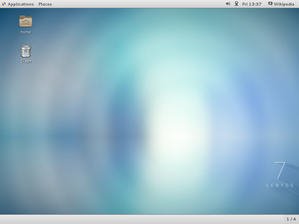 Screenshot of the default CentOS 7.0 desktop using GNOME 3.8